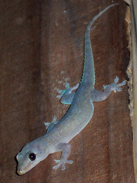 House gecko Hemidactylus frenatus, from Cimande, Bogor, West Java, Indonesia